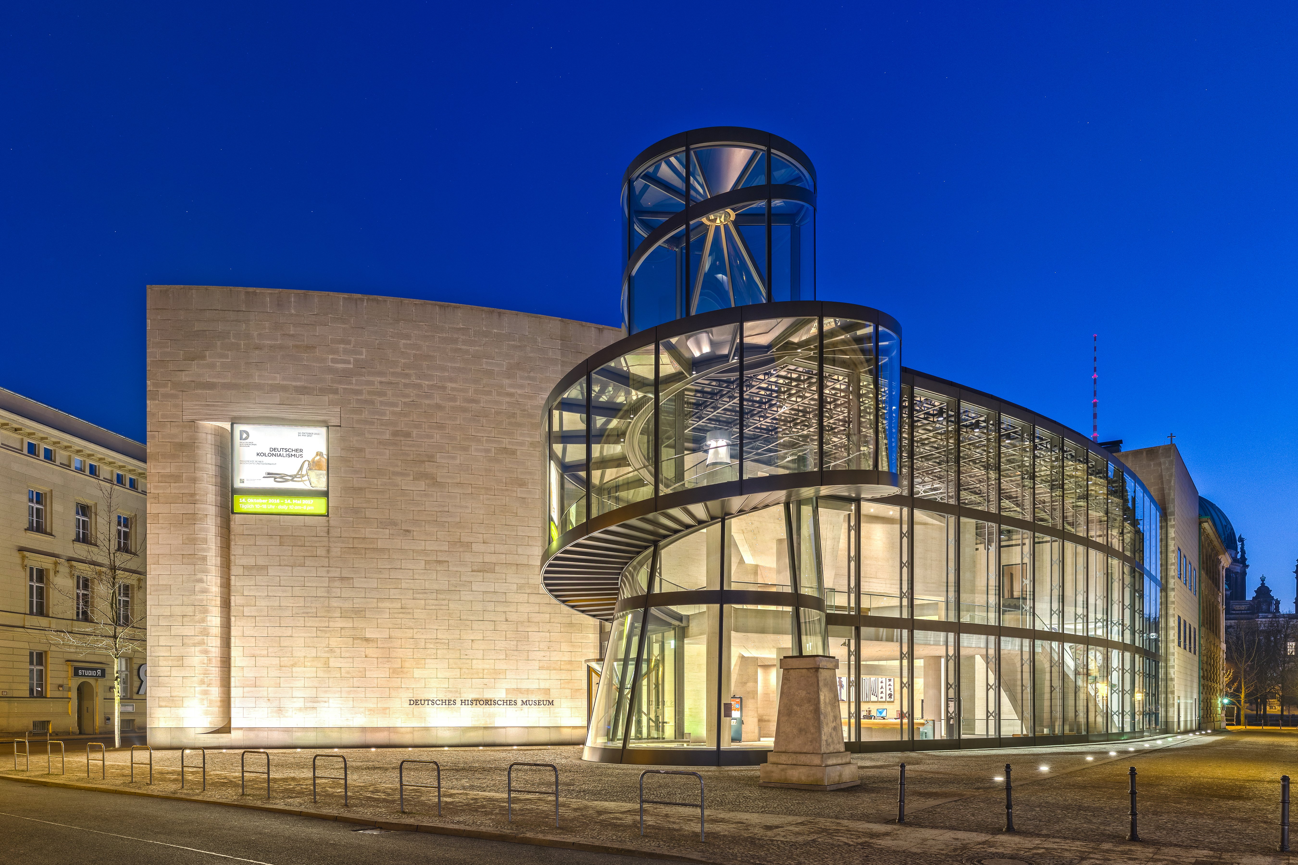 Exhibition Hall of the German Historical Museum at dawn. Architect: Ieoh Ming Pei.